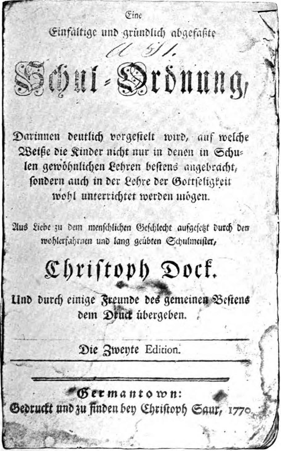 Title page of Eine Einfältige und gründlich abgefaßte Schul-Ordnung by Christopher Dock, printed and published by Christopher Sower (younger) 1770